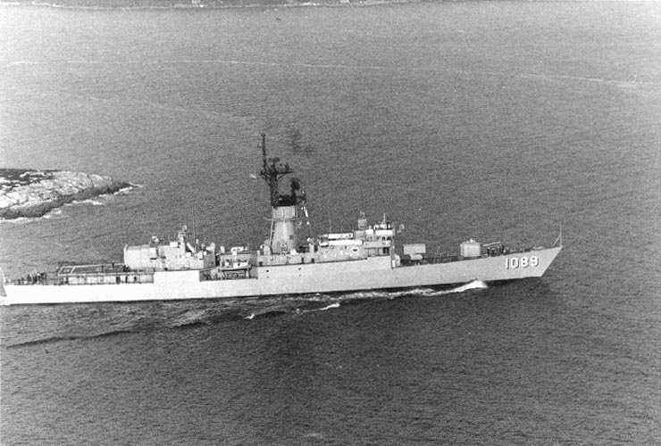 USS Jesse L. Brown (DE-1089) underway off the Maine coast. Photograph was received in January 1979.